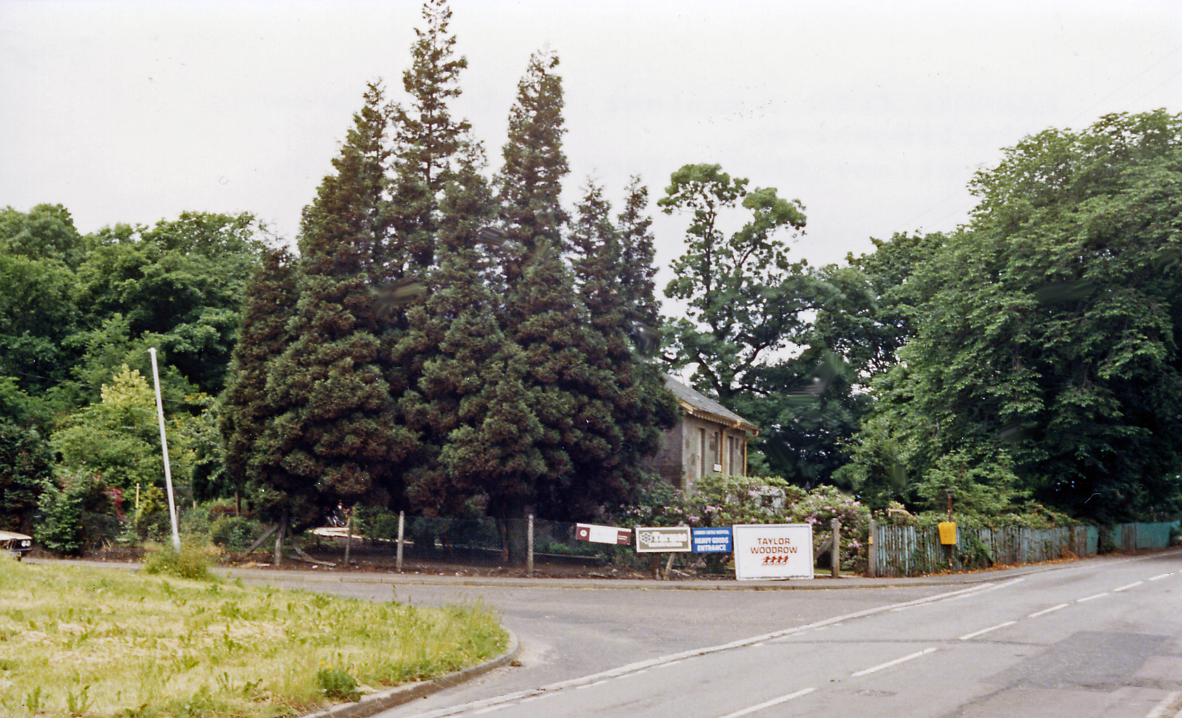 Campsie Glen station (remains), 1986. View westward on A891, towards Strathblane and Aberfoyle: ex-NBR Glasgow - Lenzie (Campsie Branch Junction) - Strathblane - Aberfoyle line, closed (from Kirkintilloch) 1/10/51 (goods beyond Lennoxtown 5/10/59). The station building seems to be still there in 1986.